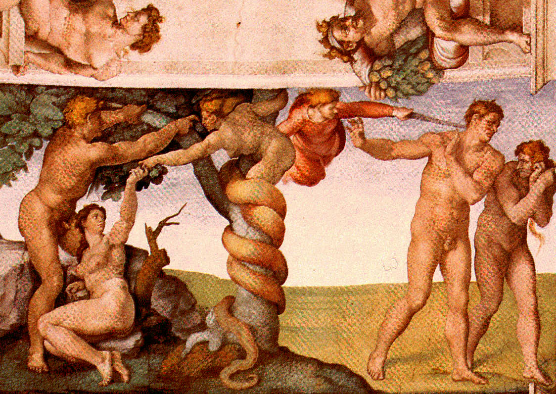 Temptation and Fall